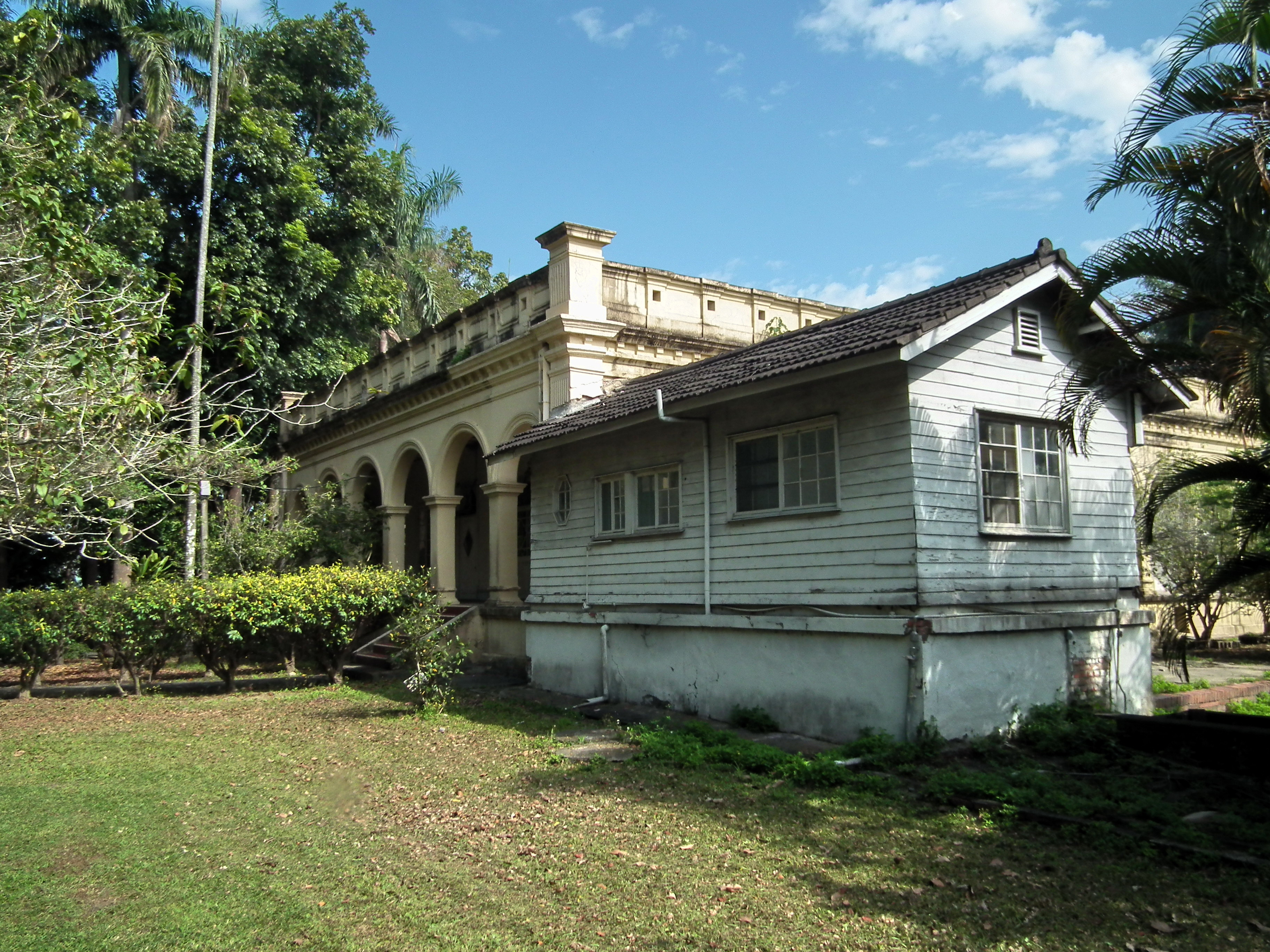 原橋頭糖廠辦公廳舍 Former Office Building of Qiaotou Sugar Refinery